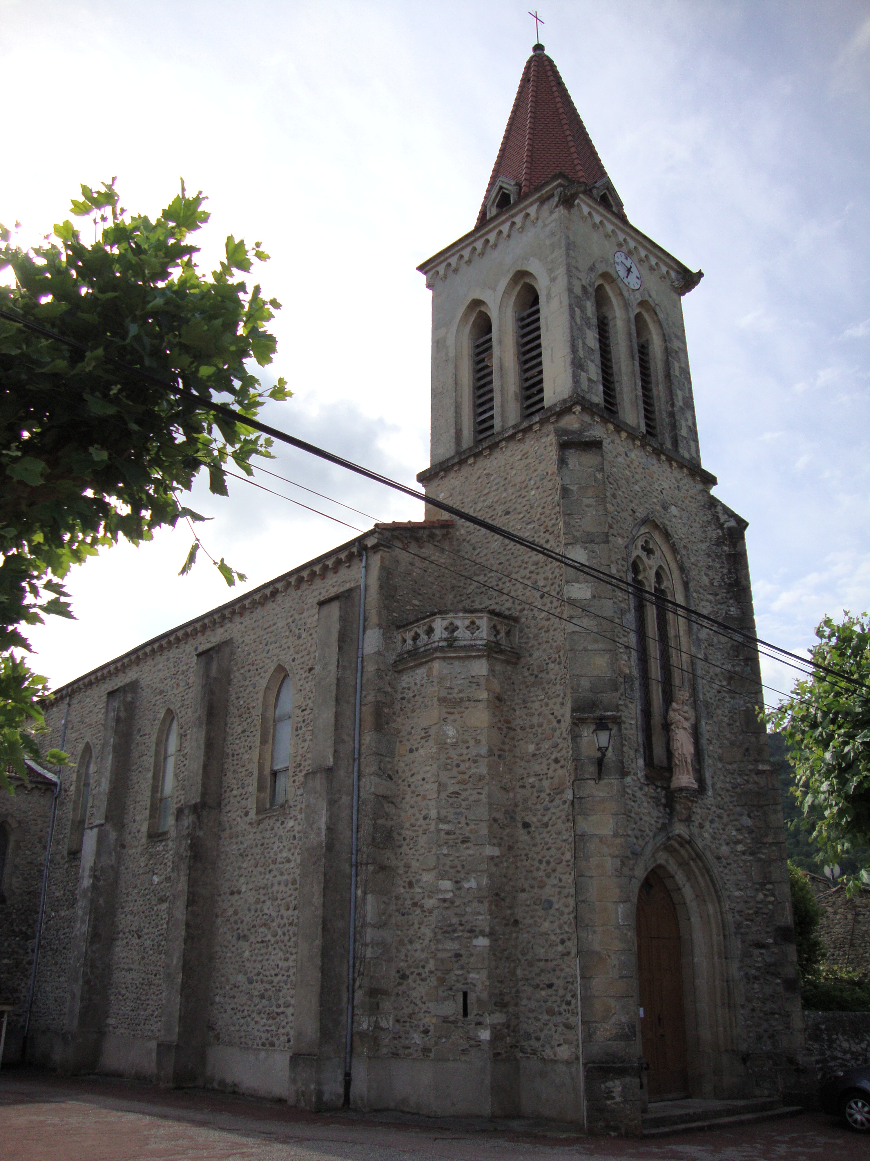 Saint-Laurent-du-Pape (Ardèche, Fr) église catholique